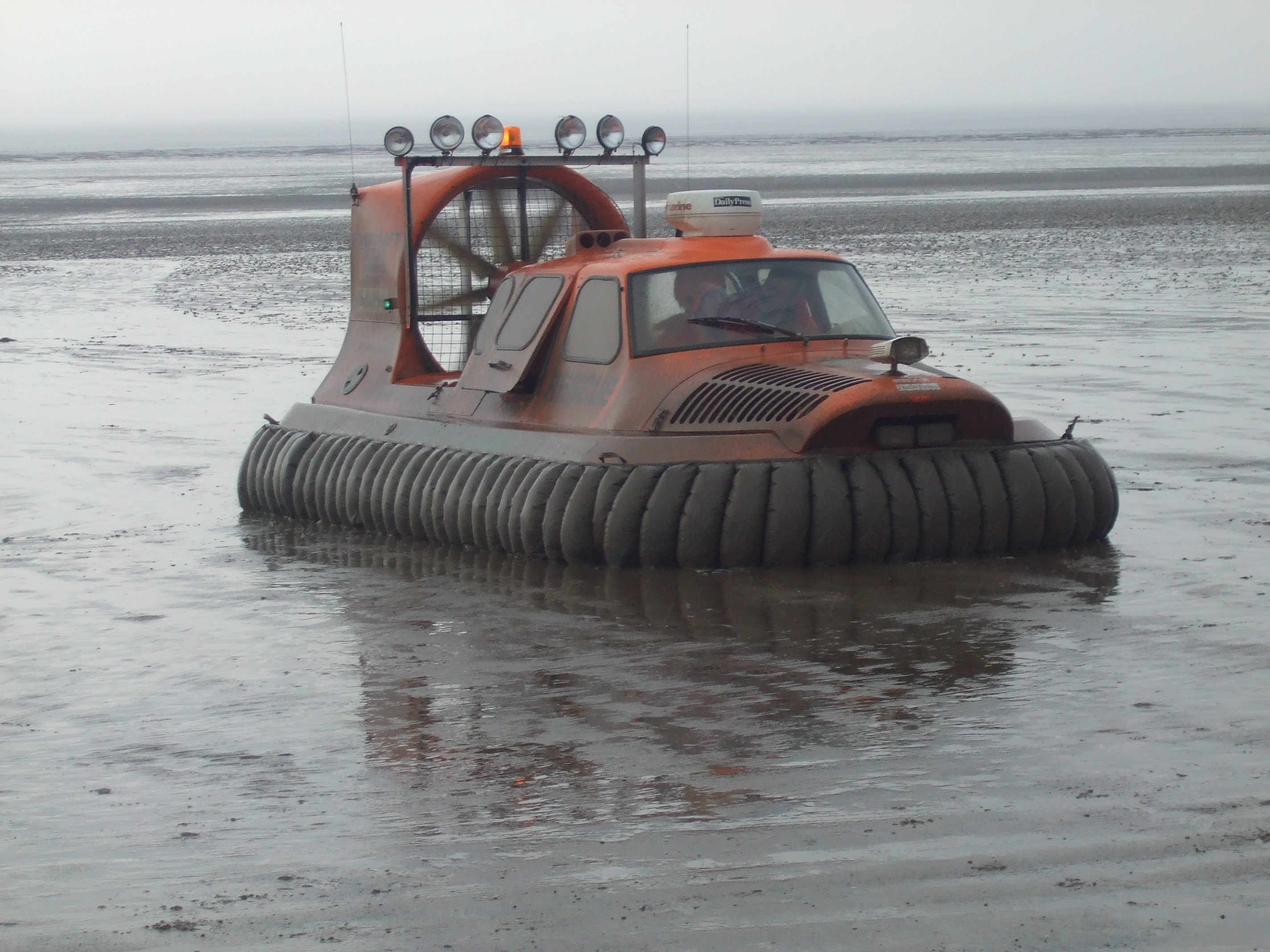 Rescue hovercraft Spirit of Lelania at Brean Somerset